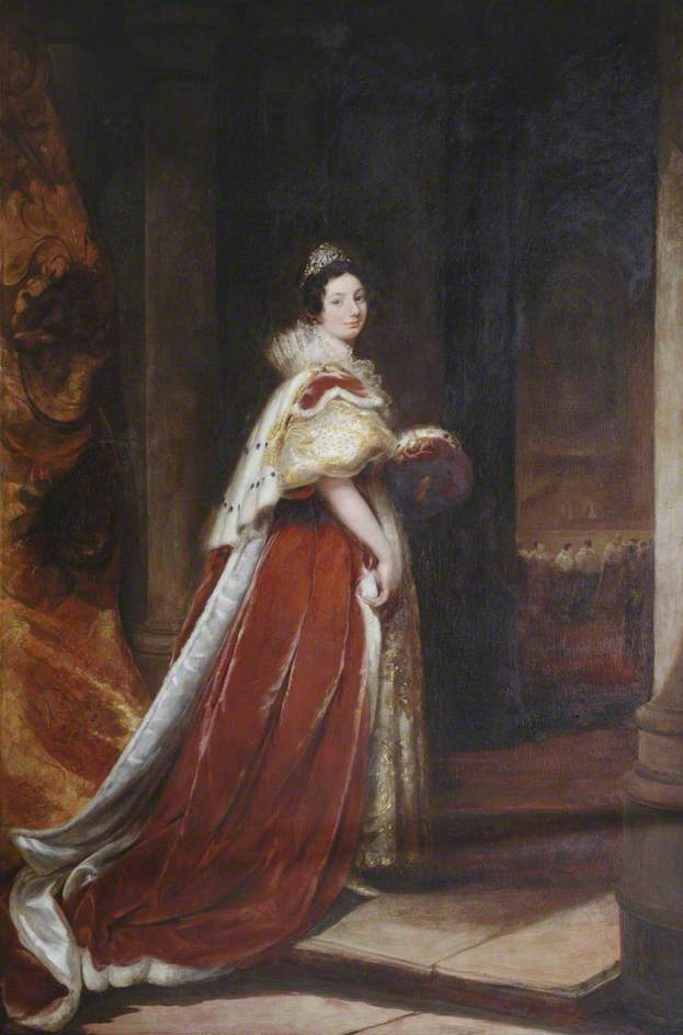 Lady Louisa Rolle attrib Christina Robertson and Thomas Lawrence now at Great Torrington Almshouse, Town Lands and Poors Charities; Supplied by The Public Catalogue Foundation - date not given but Lawrence died in 1830